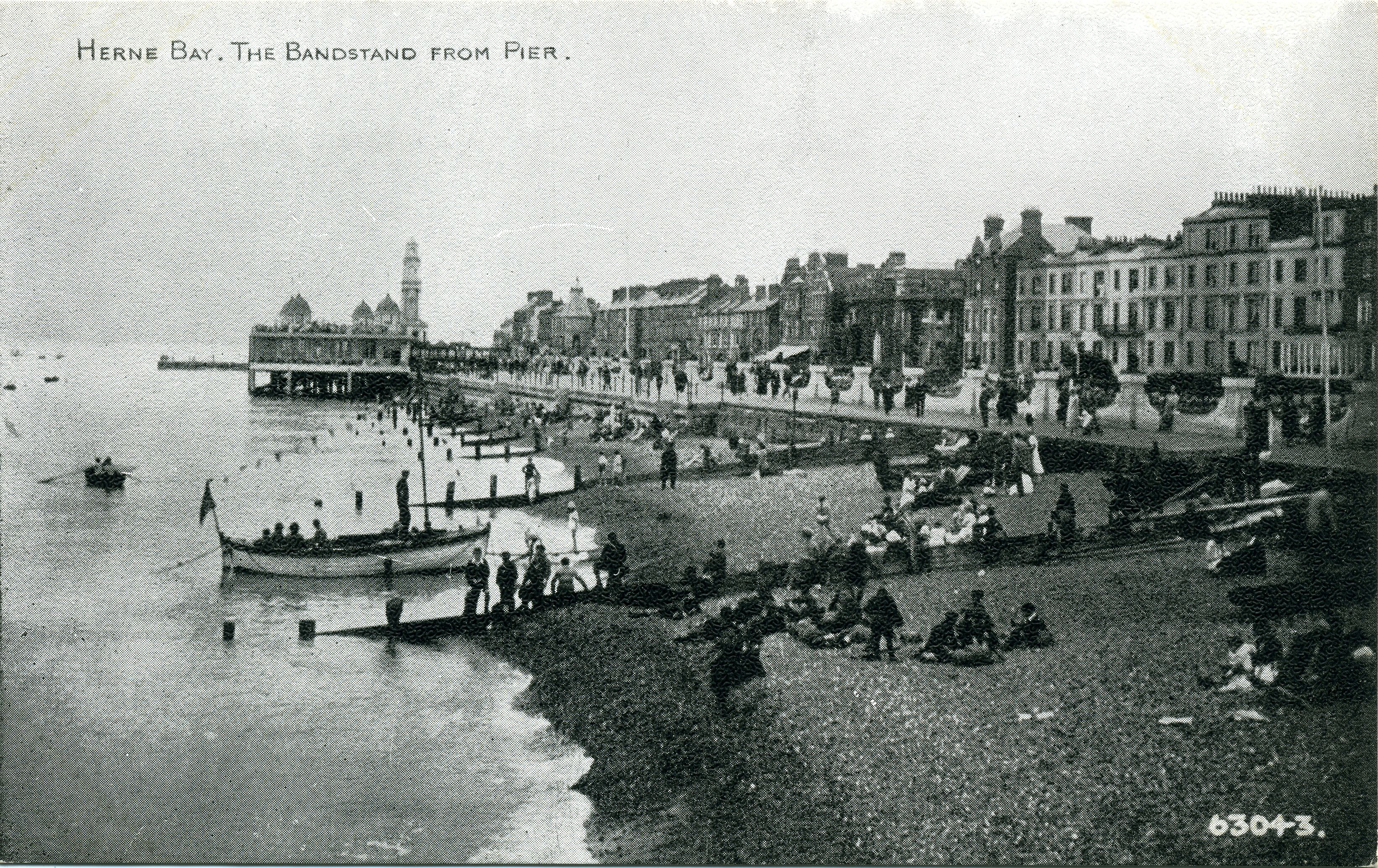 Postcard showing a print of Herne Bay (Kent, England) looking east from the third Herne Bay Pier. The original photo was probably taken from the promenade deck halfway up the Grand Pier Pavilion, or possibly from the roof of the entrance building. This shows a special aspect of the pier, which was to give an unusual view of the town from the sea, for those who had no access to ships. The bandstand can be seen along the beach. It was published by Photochrom of London and Tunbridge Wells.